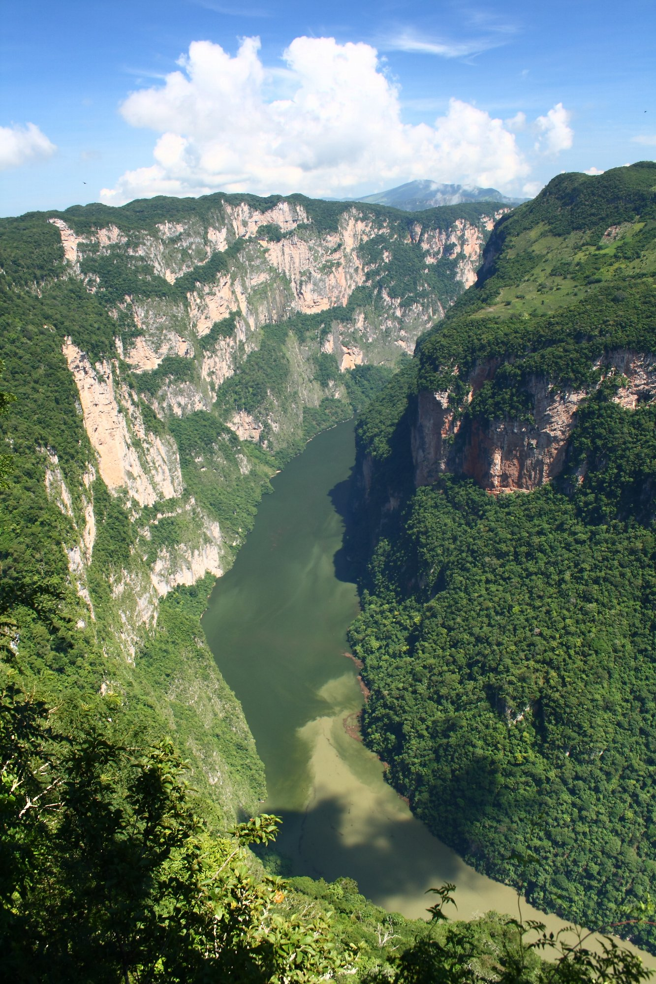 Grijalva River and Sumidero Canyon — in the state of Chiapas, Southwestern Mexico.